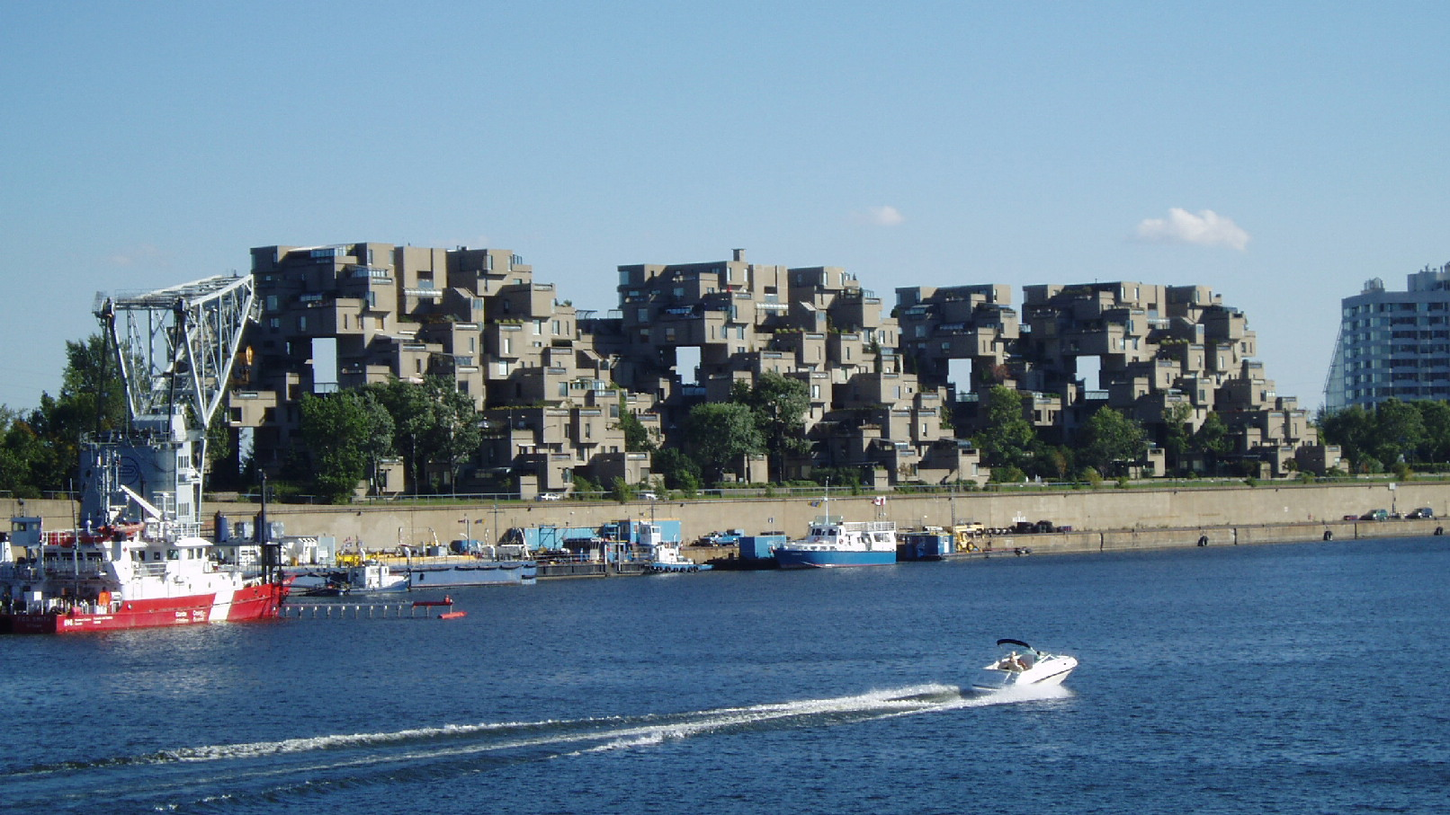 Habitat 67 is a housing complex in Montreal, Quebec, Canada, associated with the Expo 67. Photo by Eberhard von Nellenburg